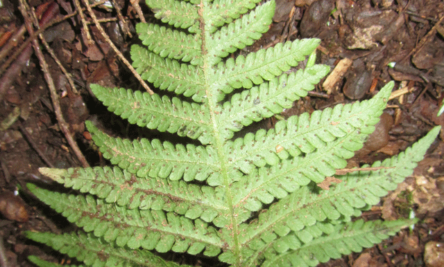 Found in Copper Falls State Park, Wisconsin.